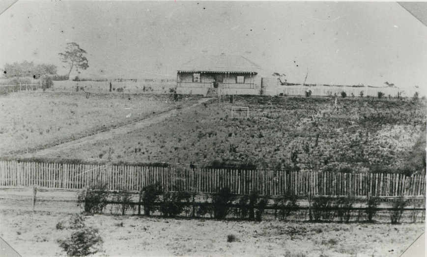 Original home of Rischbieth family, Wyatt Street, Mount Gambier. This family owned the property from 1860-1950. The General Store was owned by Holtje and Rischbieth and stood in Commercial Street